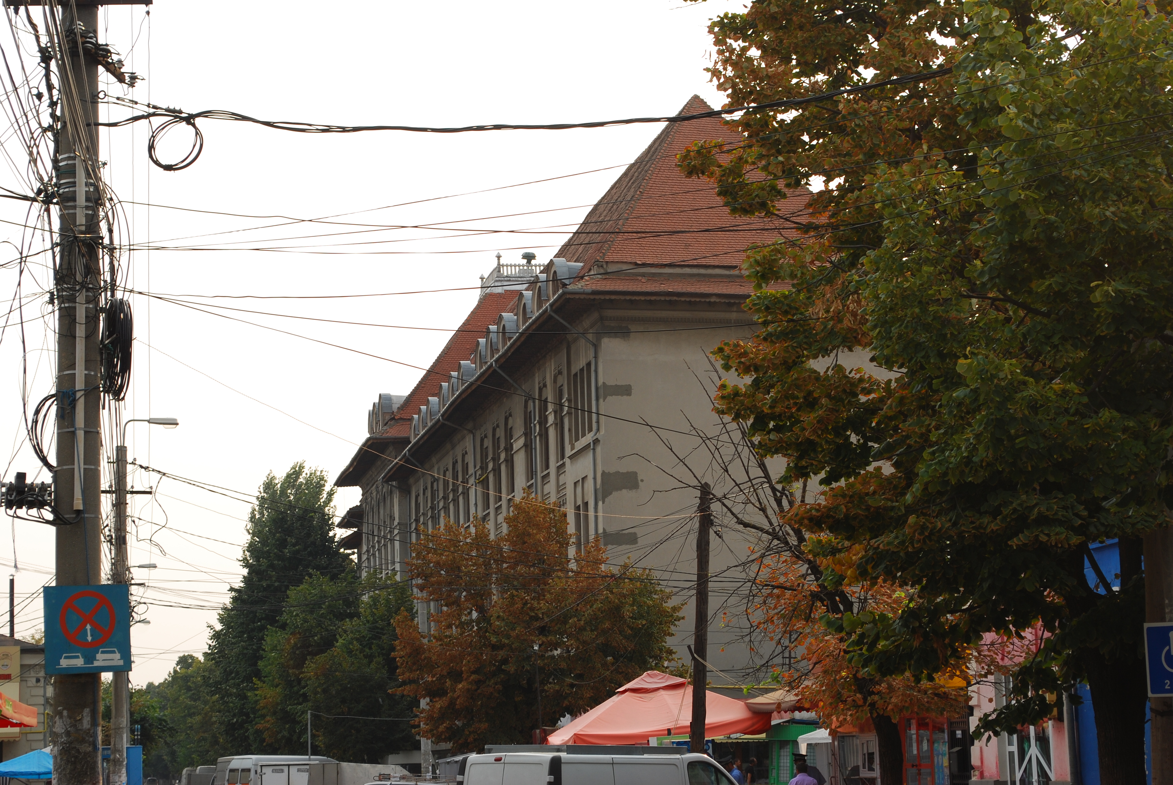 Mihai Eminescu high school in Buzău, RomaniaRomână: Colegiul Național "Mihai Eminescu" din Buzău, România